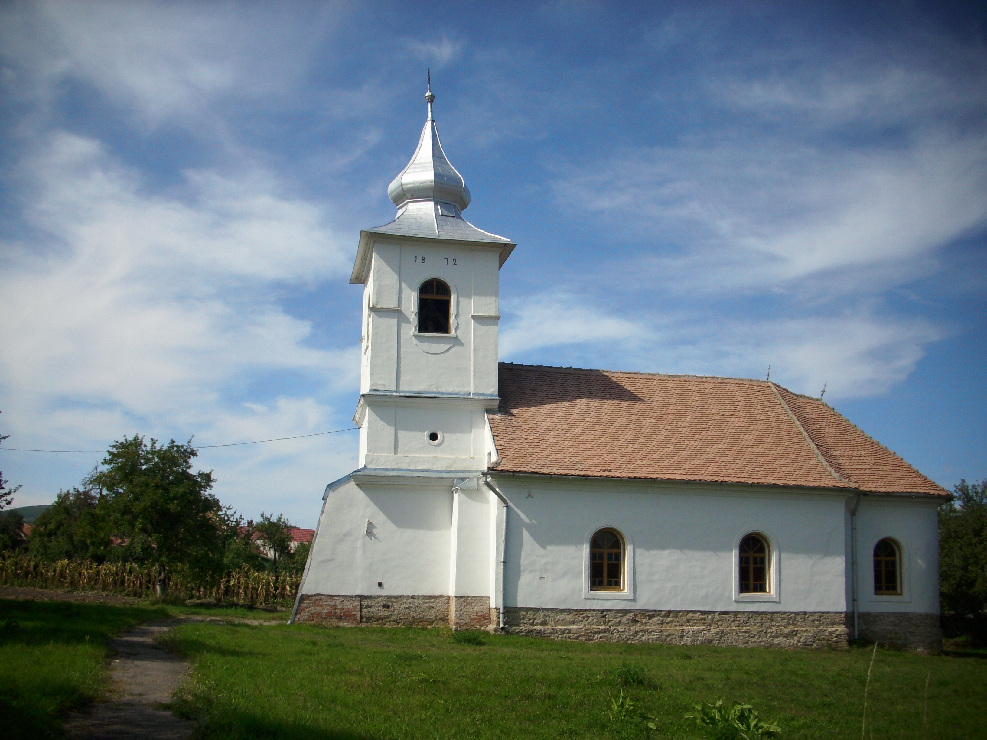 It's a church which was made in 1872. The photo was taken in september 2013